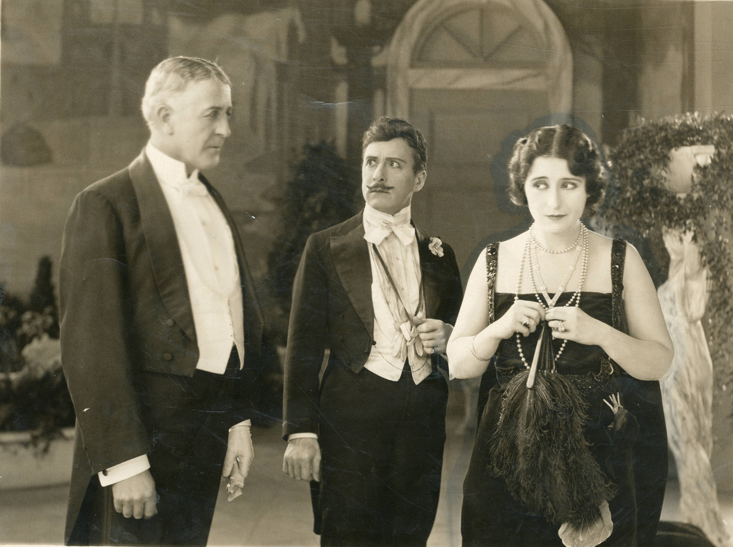 A scene from the American drama film The Forbidden Woman (1920) which played at the Coliseum Theater, Seattle. Includes Clara Kimball Young. Date stamped Ap. 14, 1920. Subjects: motion pictures, actresses